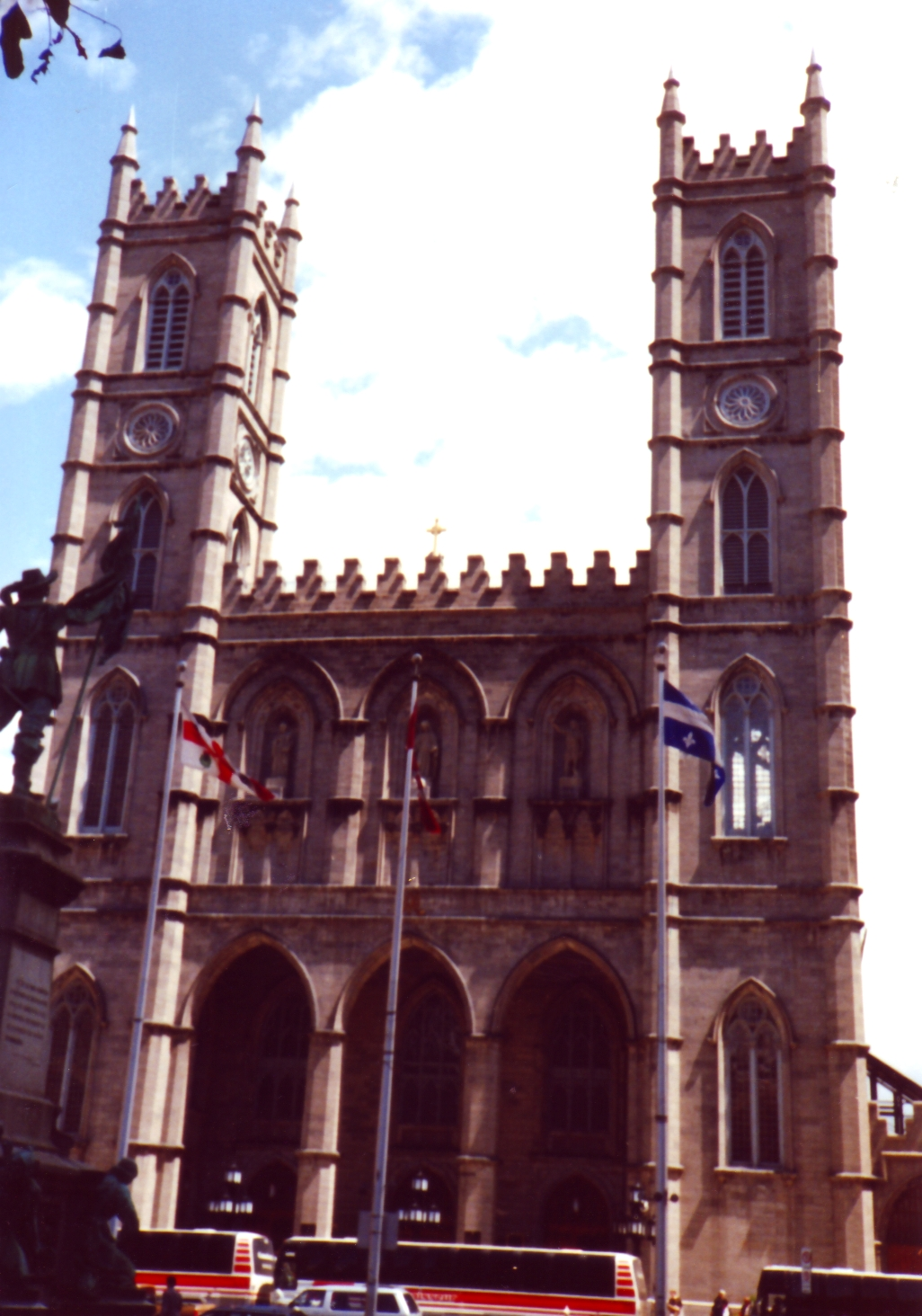 Notre-Dame basilica in Montreal, Québec